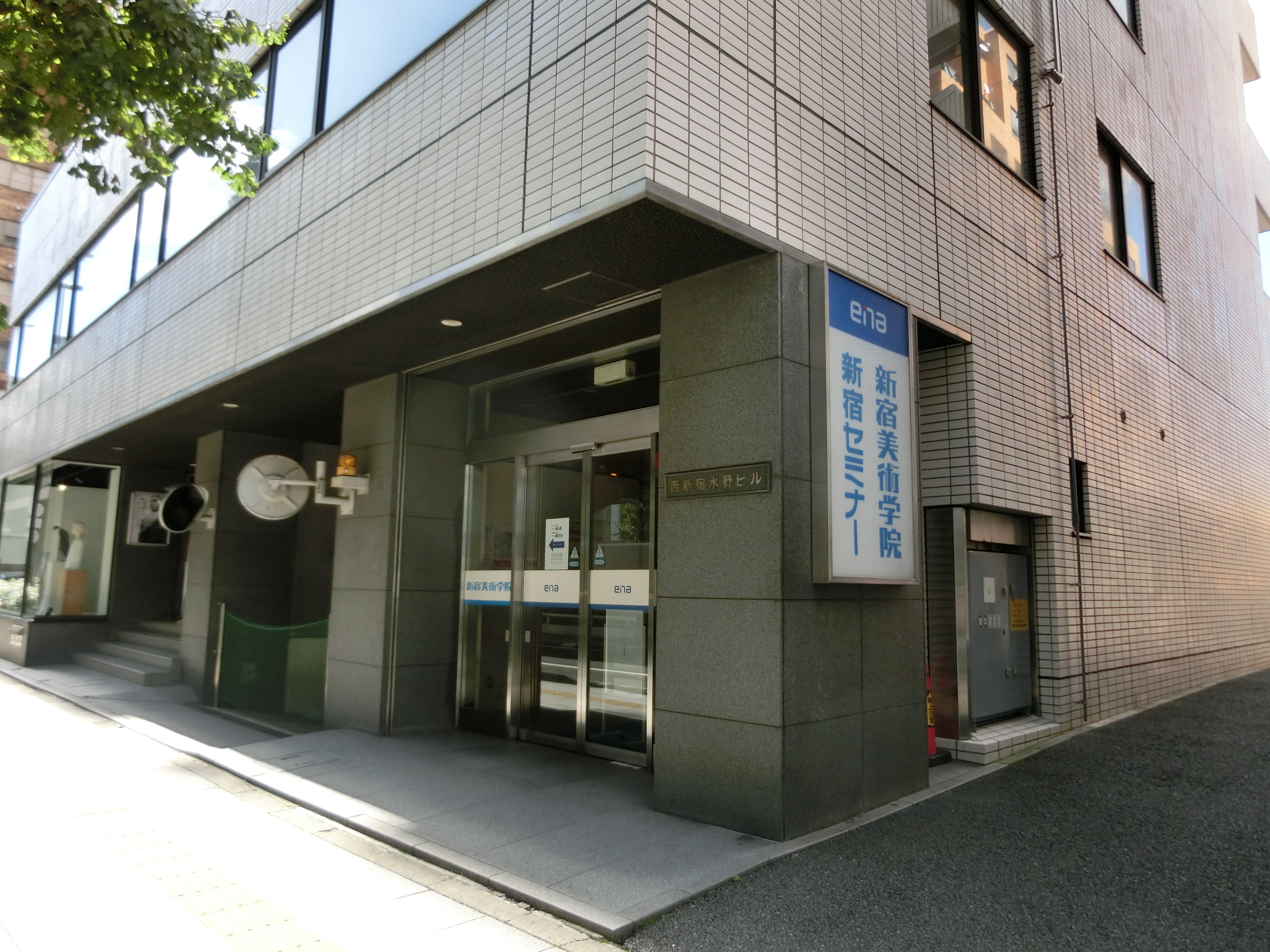 Shinjuku Seminar Shinjuku School